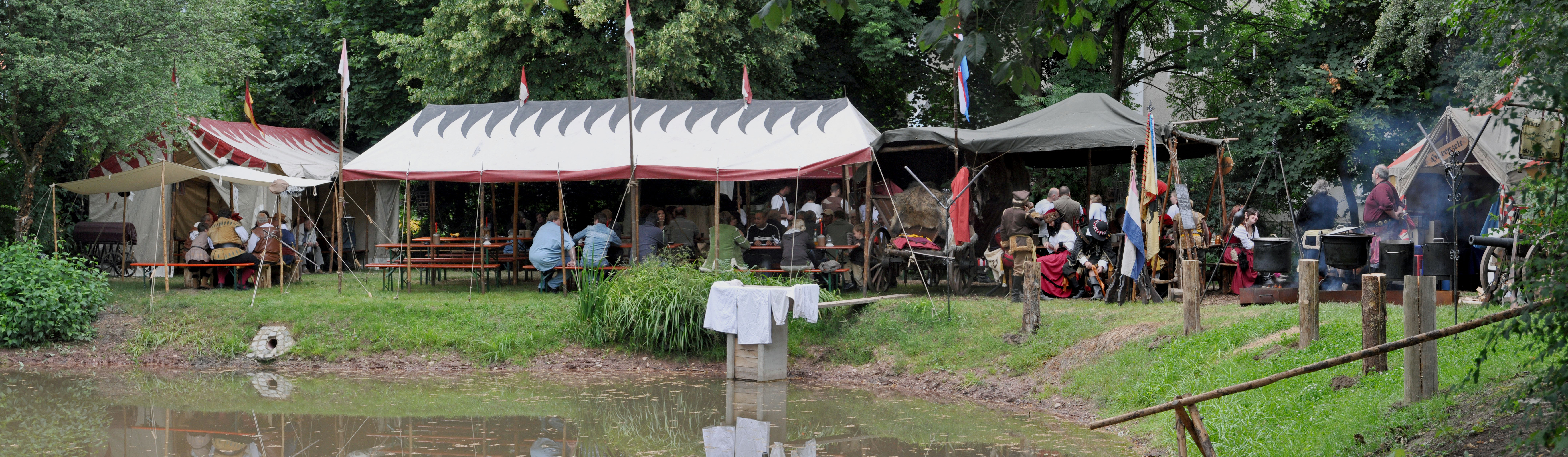 Historical reenactment of a croatian camp while the so called Wallenstein-Festival in Altdorf near Nuremberg/Germany 2009